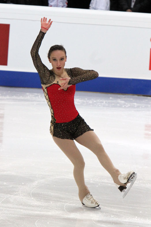 Birce Atabey at the 2011 European Figure Skating Championships